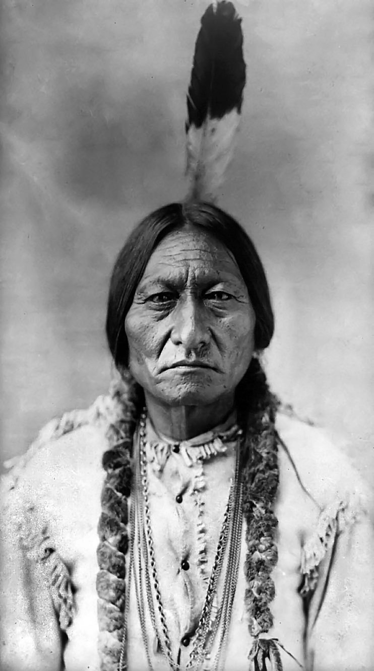 Portrait of Sitting Bull by David Francis Barry.